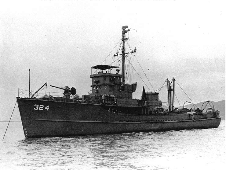 USS YMS-324 in San Francisco Bay, California, after the end of World War II, circa 1945-46. This ship became USS Gull (AMS-16) in 1947. Courtesy of Donald M. McPherson, 1974. Naval Historical Center Photograph.